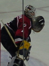 Salt Lake City 2002 Winter Olympics Flashback series featuring adventures of Dave Thorvald and Dan Funboy.